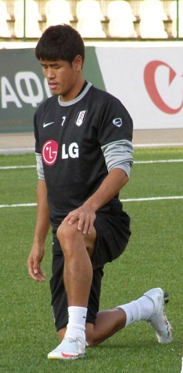 Seol Ki-Hyeon training for Fulham F.C.